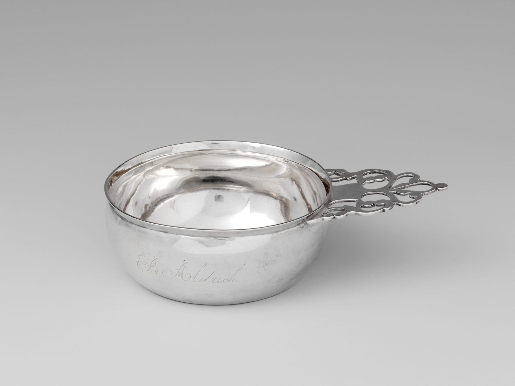 American; Porringer; Silver